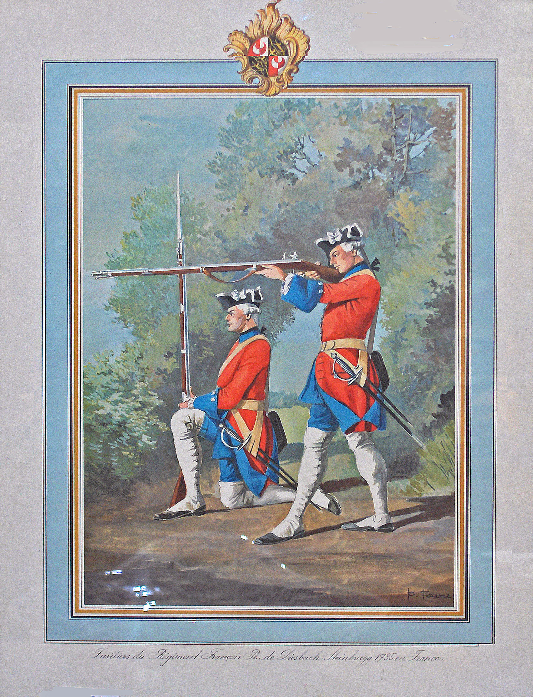 "French fusilliers" (1735), by Ph. de Liesbach-Steinburgg; private collection